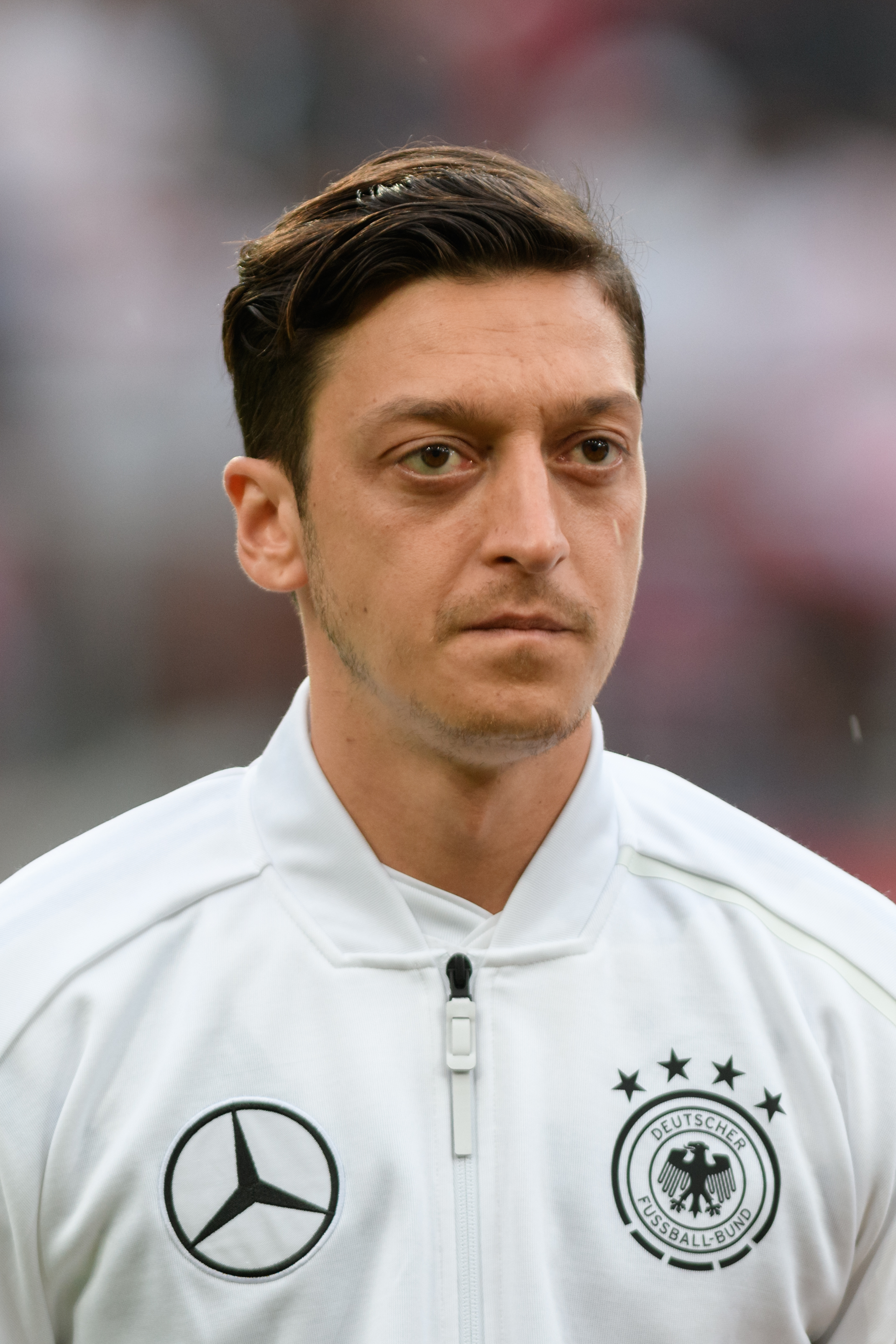 FIFA Friendly Match Austria vs. Germay 2018/06/02 in Klagenfurt/Woerthersee. Picture shows Mesut Özil (GER).